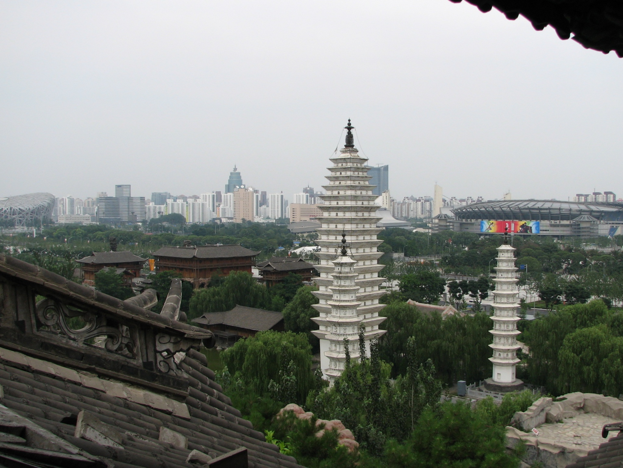 China Nationalities Museum